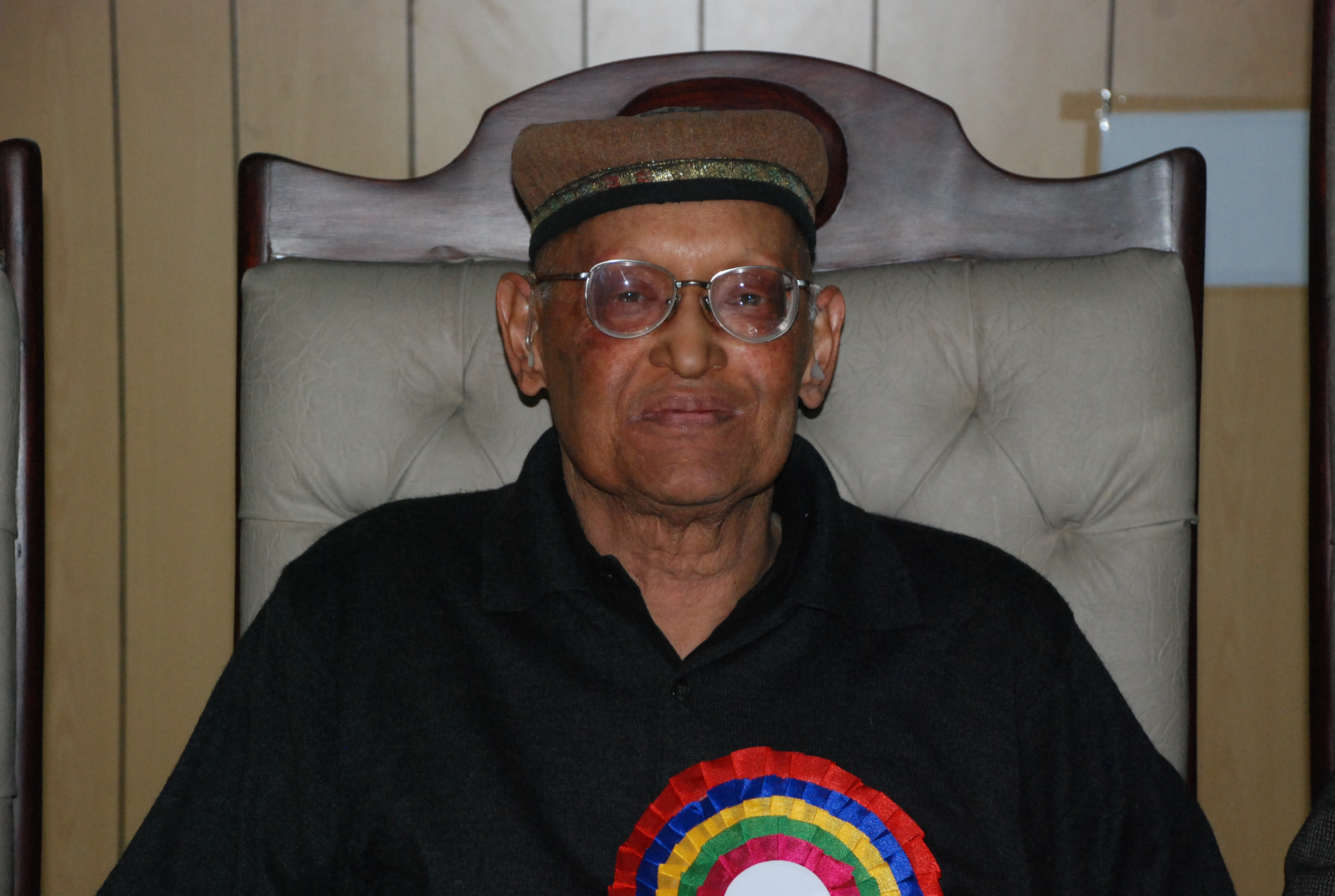 Prof. Dr. Asghar Qadir in One Day Conference on Gravitation at PU, Lahore. December 17, 2011